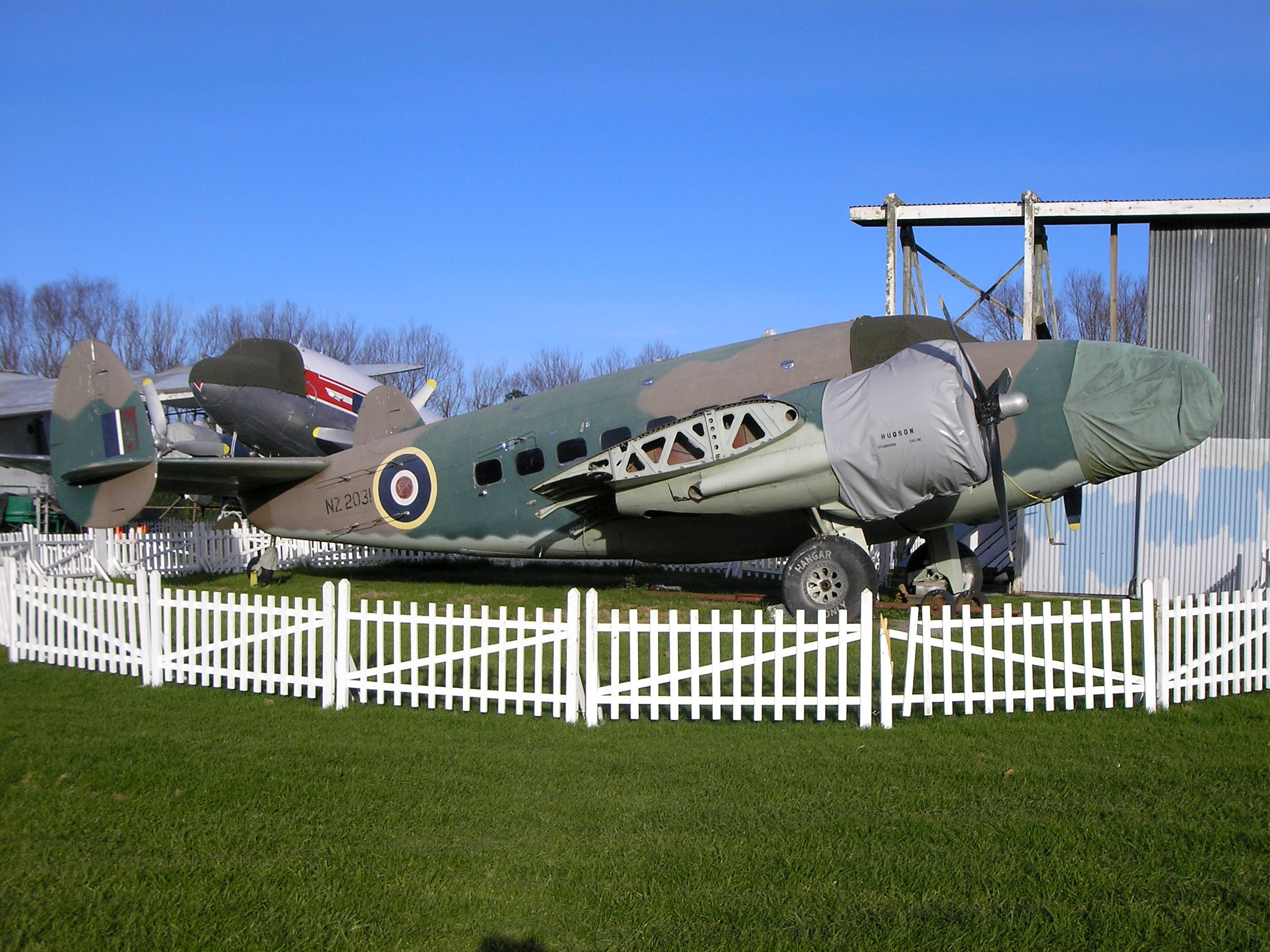 RNZAF Lockheed Hudson patrol bomber photographed at MoTaT, 2007. This aircraft, NZ2031, was originally AE499 for the RAF, but due to the presence of German Surface raiders in the South Pacific, became part of a batch of Hudsons diverted from British Purchasing Mission before completion for the Royal New Zealand Air Force, (whose modern bombers had been committed to the war in Europe. The Hudson was sent to New Zealand by sea on the Manuel, joining the RNZAF on 29 October 1941 at Hobsonville before being posted as UH-H to No. 2 Squadron RNZAF at Nelson on 2 January 1942. NZ2031 was sent forward to No. 3 Squadron RNZAF fighting from Espiritu Santo around August/October 1943, just as the Hudsons began to be replaced by Lockheed Venturas. The aircraft was used as a personal aircraft of AOC No.1 Islands Group RNZAF based on Guadalcanal. NZ2031 was returned to New Zealand by early 1945 and transferred to the Air Navigation School Wigram in March 1946. The Hudson flew from Wigram to Taieri for disposal on 19 August 1948. It was sold to Mr. Carr on 9 May 1949, the wings being torched off at their roots for transport to his Dunedin farm. The fuselage was donated to MOTAT by Mr. Carr in 1966, and brought to Auckland by No. 40 Squadron RNZAF C-130 Hercules. Between 1973 and 1978, the fuselage was stored at Ardmore. NZ20341 was restored between 1978 and 1984 receiving donor wings and engines and was until recently stored inside. The fuselage has recently been moved outside due to shortage of space, and is in need of further work. The outer wings remain stored in the aircraft restoration hangar.